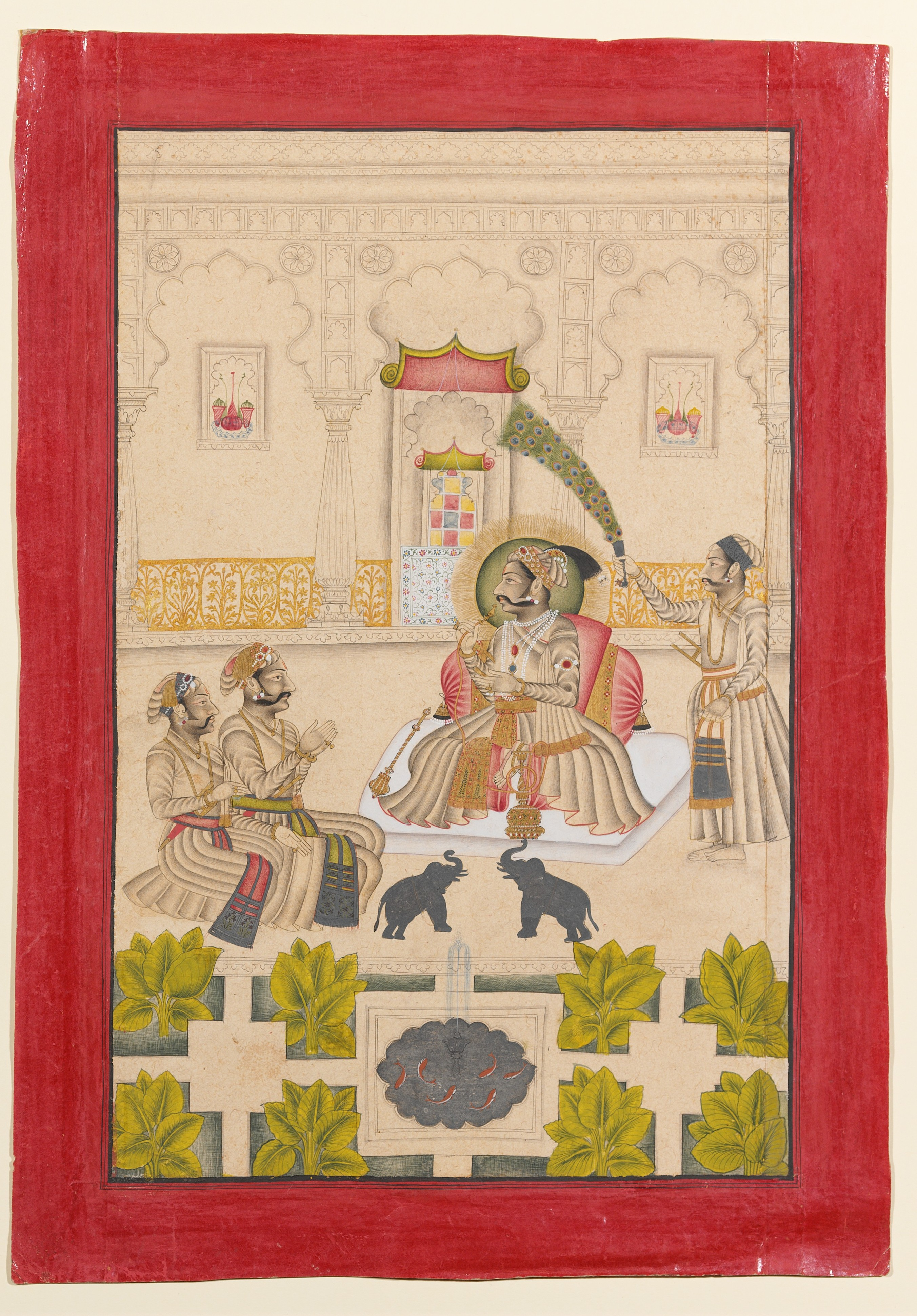 Stipple Master. Maharana Amar Singh II Is Shown Two Silver Elephants 1705 Cynthia Hazen Polsky and Leon B. Polsky Fund